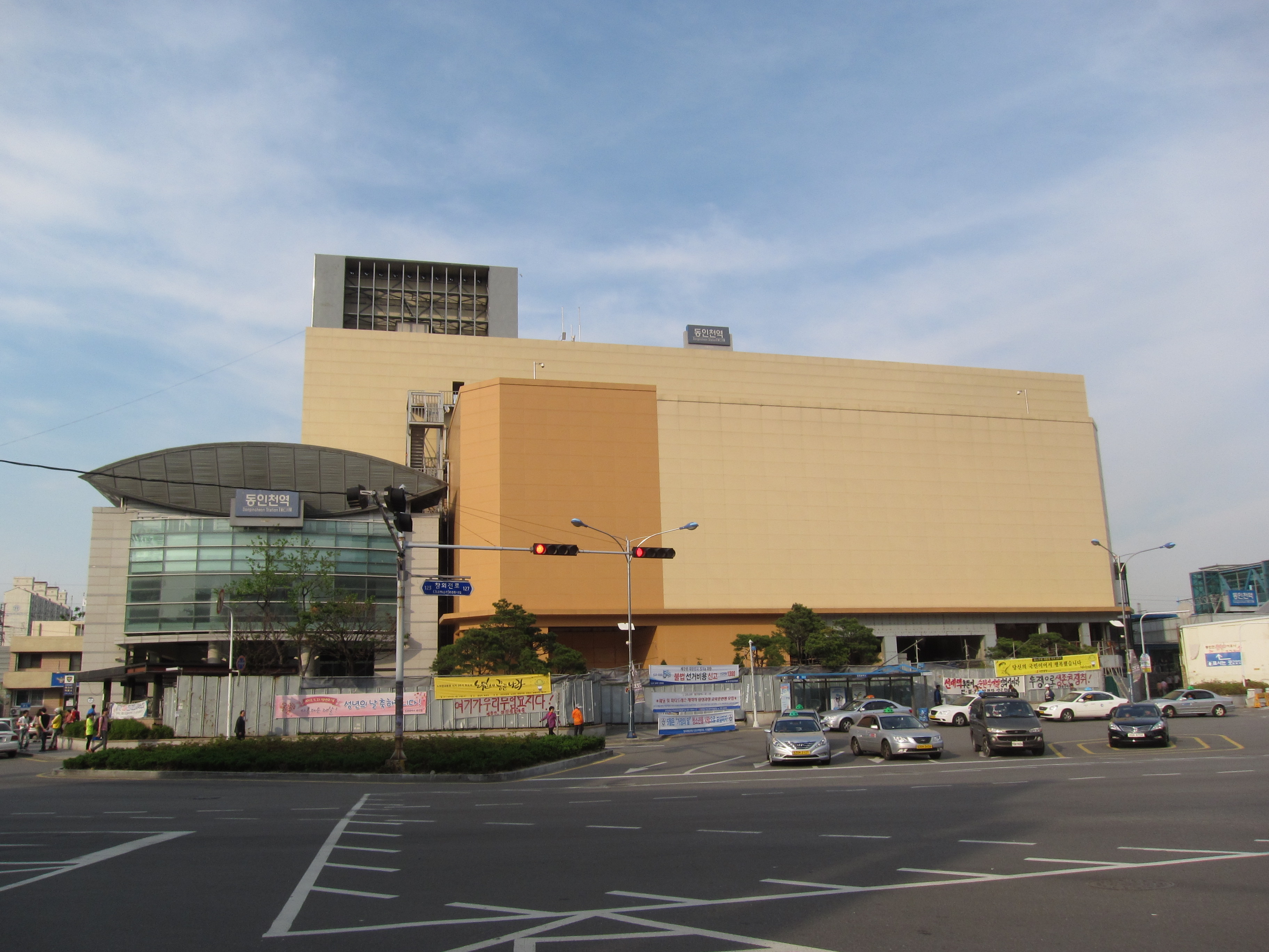 Dongincheon Station